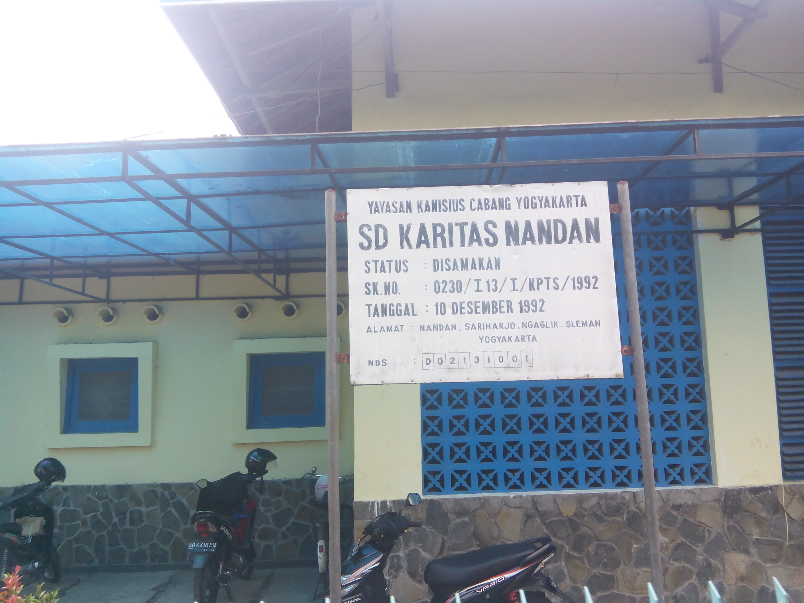 Karitas Nandan Elementary SchoolBahasa Indonesia: SD Karitas